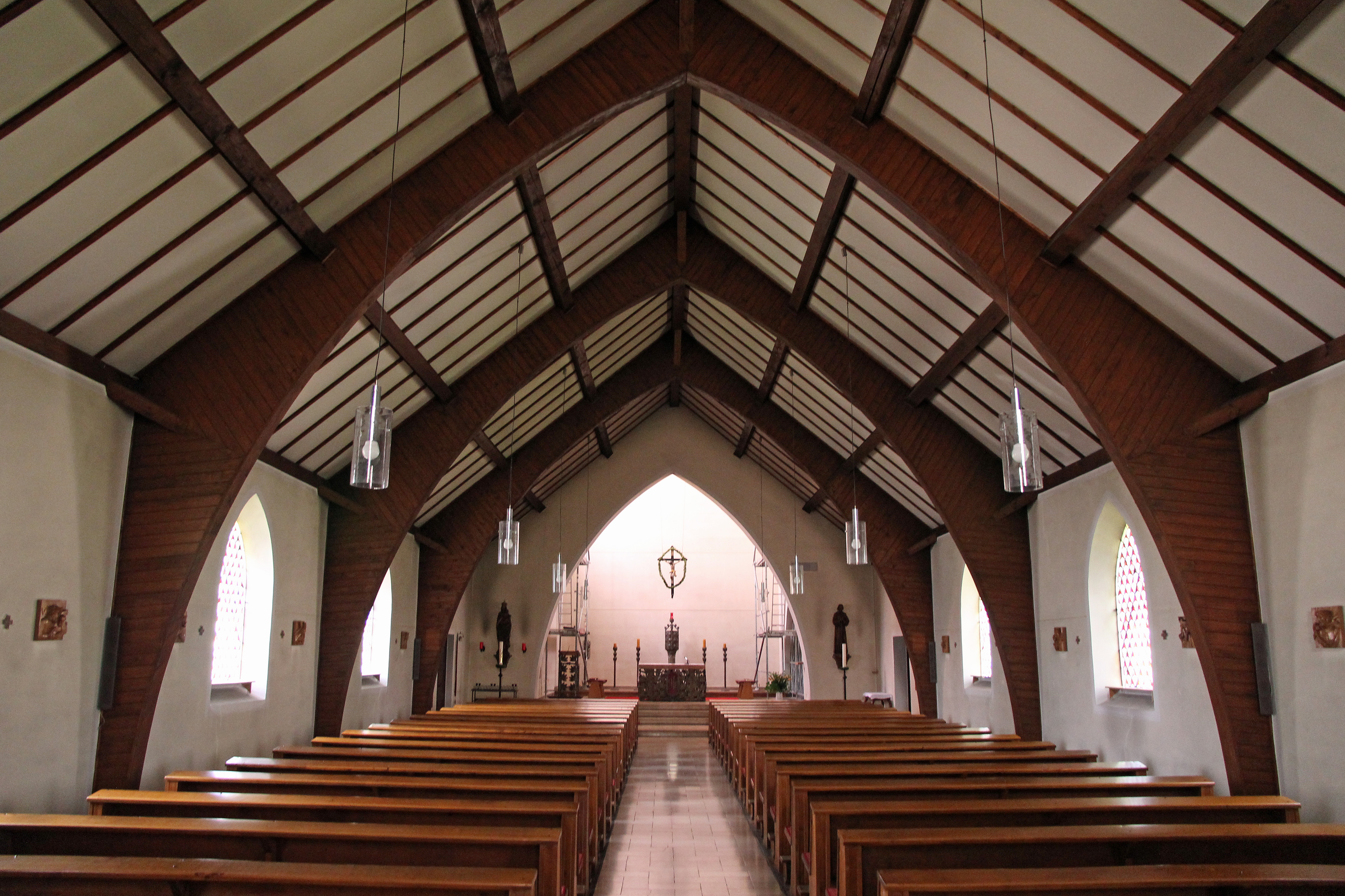 St. Beatus church in Koblenz